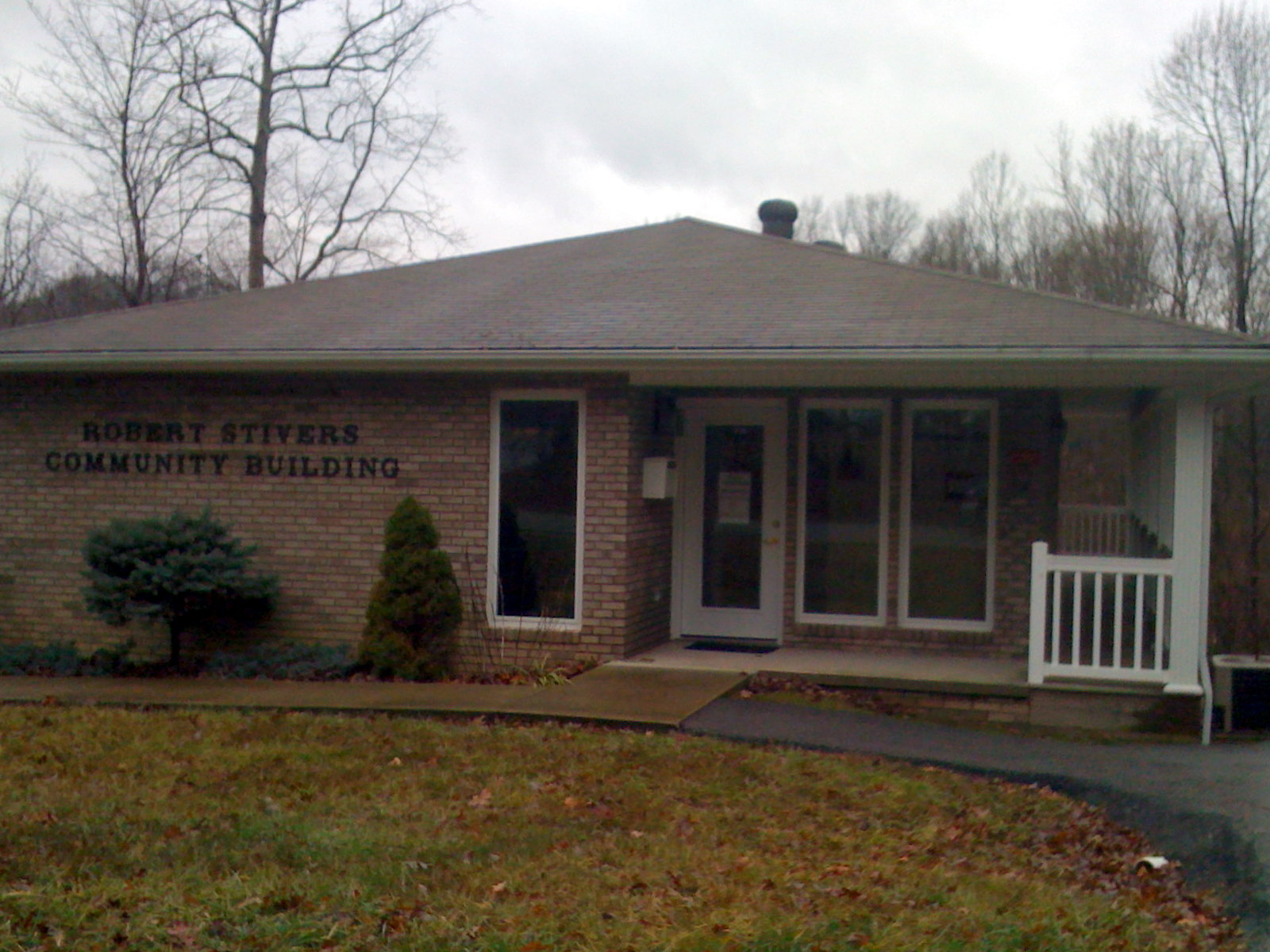 This is a picture of the front of the Robert Stivers Community Center in Lakeview Heights, Kentucky.